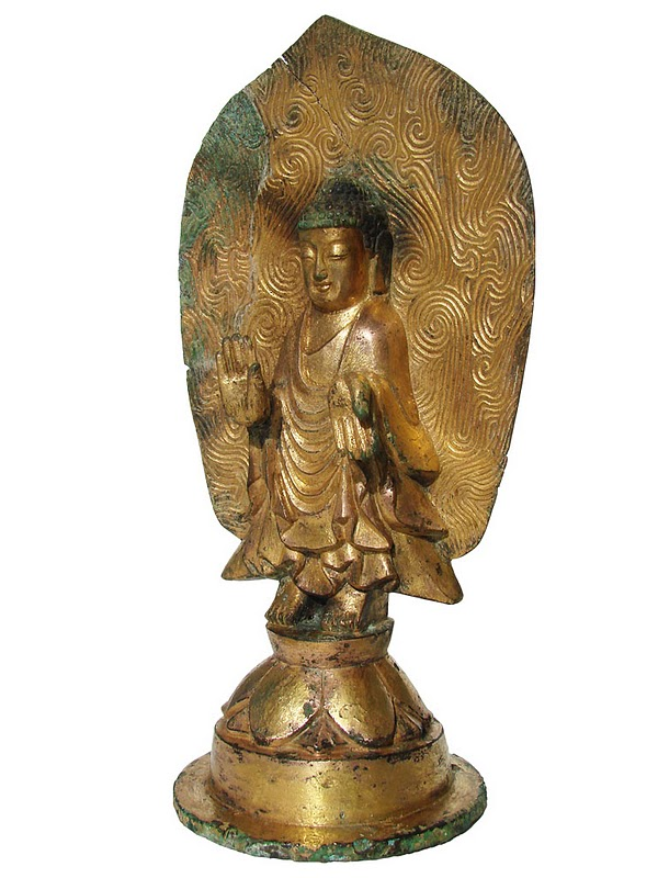 The 6th Century Korean Gilt Bronz Standing Buddha in The Asian Art Museum of Tokyo